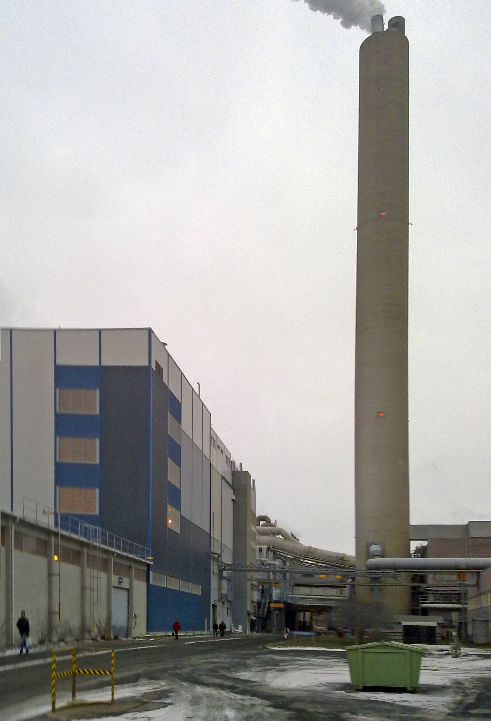 Sachtleben Picments titanium dioxide-factory in Kaanaa, Pori, Finland